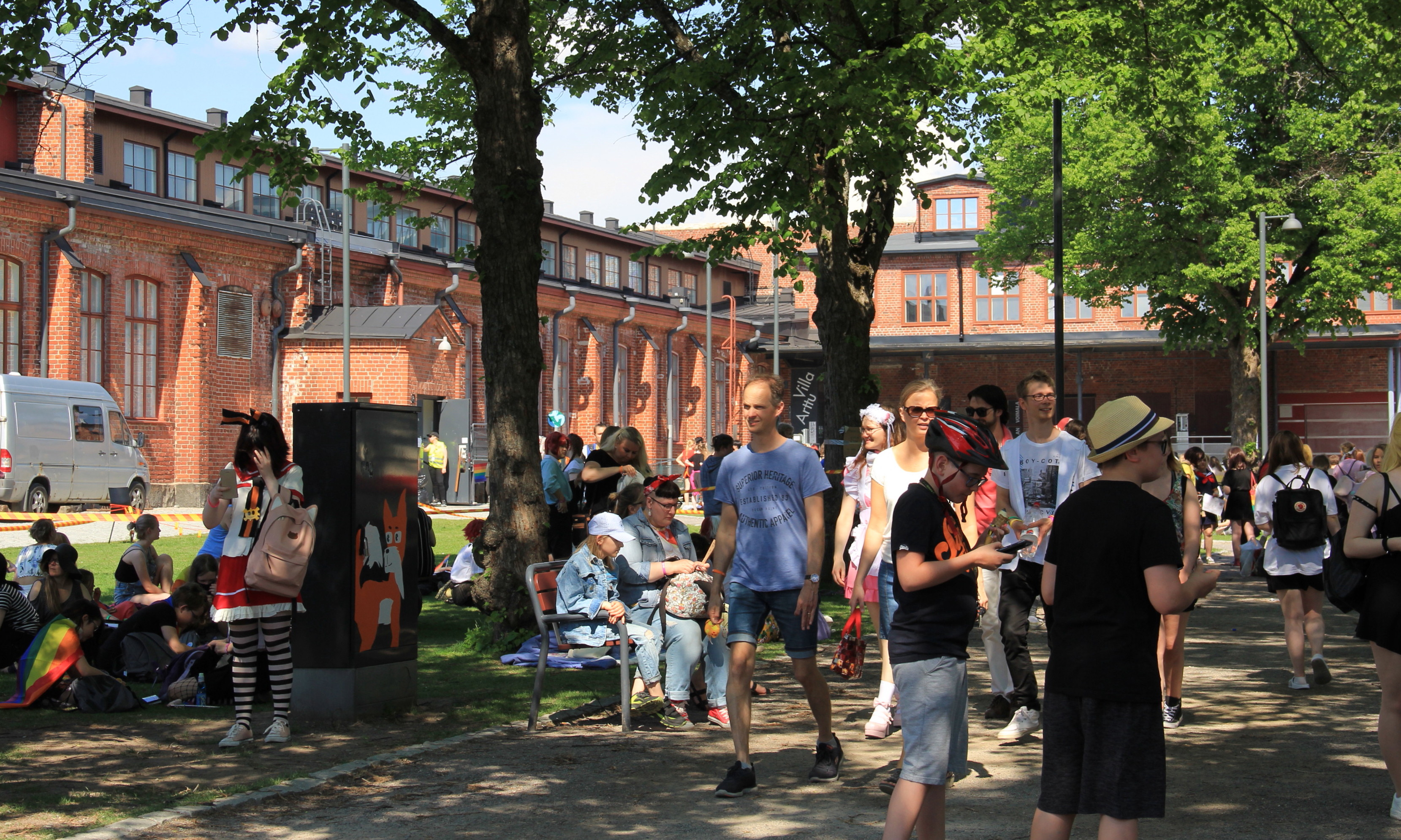 Hypecon 2019, Villatehdas, Hyvinkää, Finland.